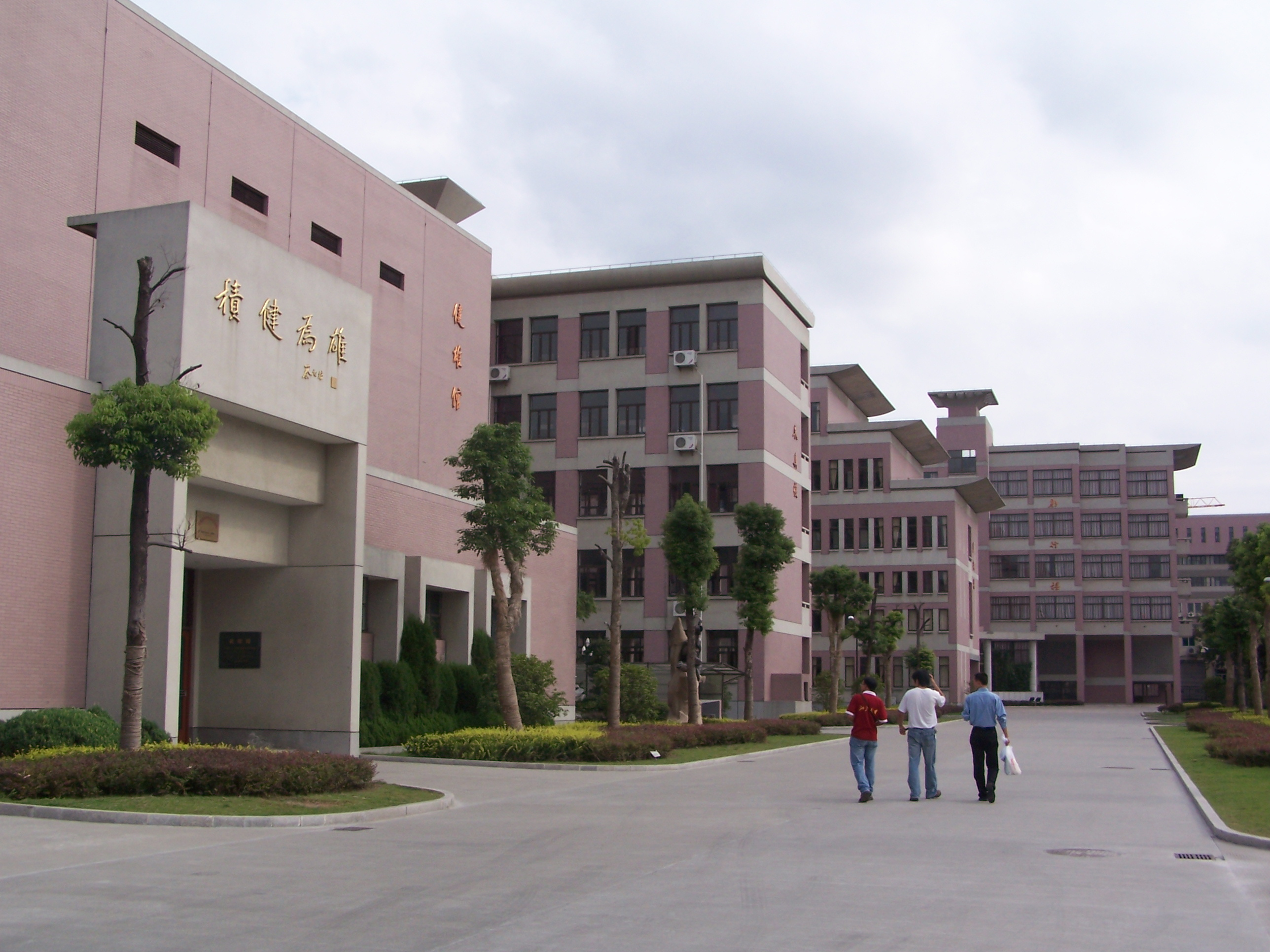 A photo of Nantong Middle School